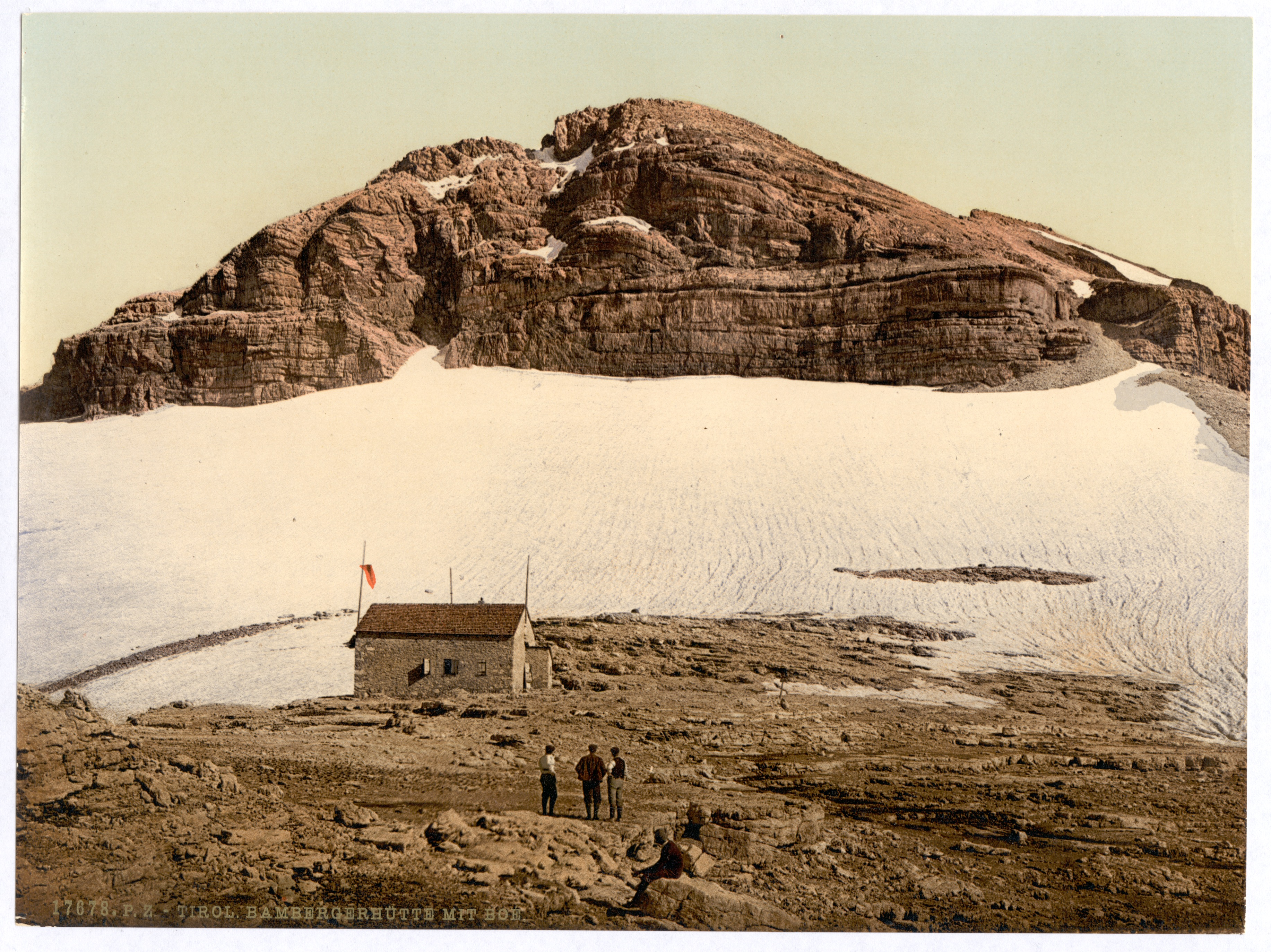 Forms part of: Views of the Austro-Hungarian Empire in the Photochrom print collection.; Title devised by Library staff.; Print no. "17678".